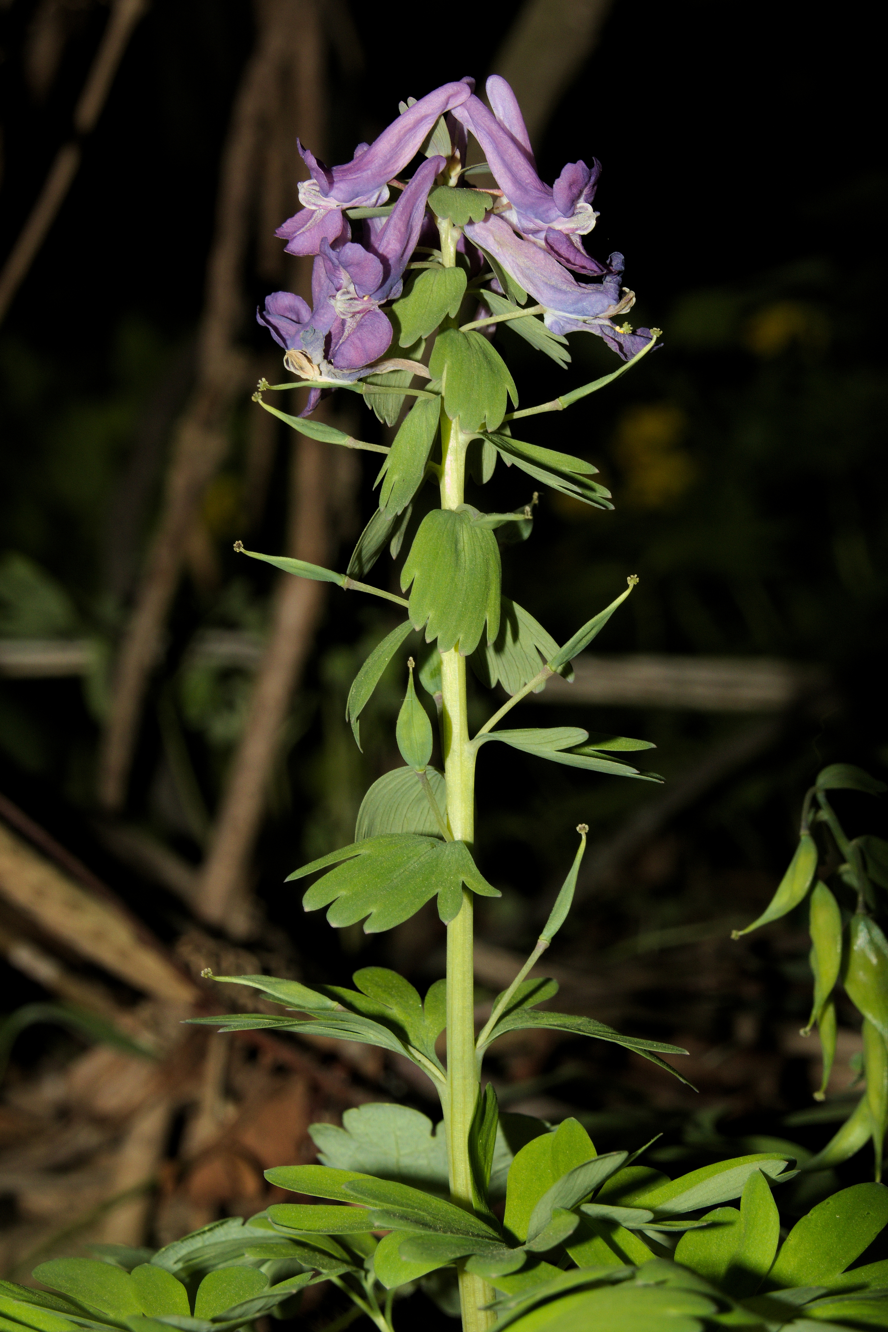 Corydalis solida (L.) Clairv. Flowering Corydalis solida. Moscow region, Russia.